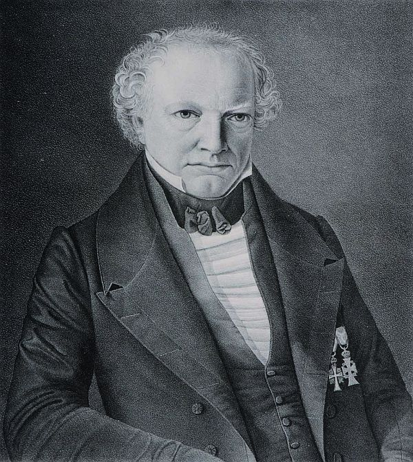 Niels Nicolaus Falck (25. November 1784 - 11. May 1850), danish politician, jurist and historian.